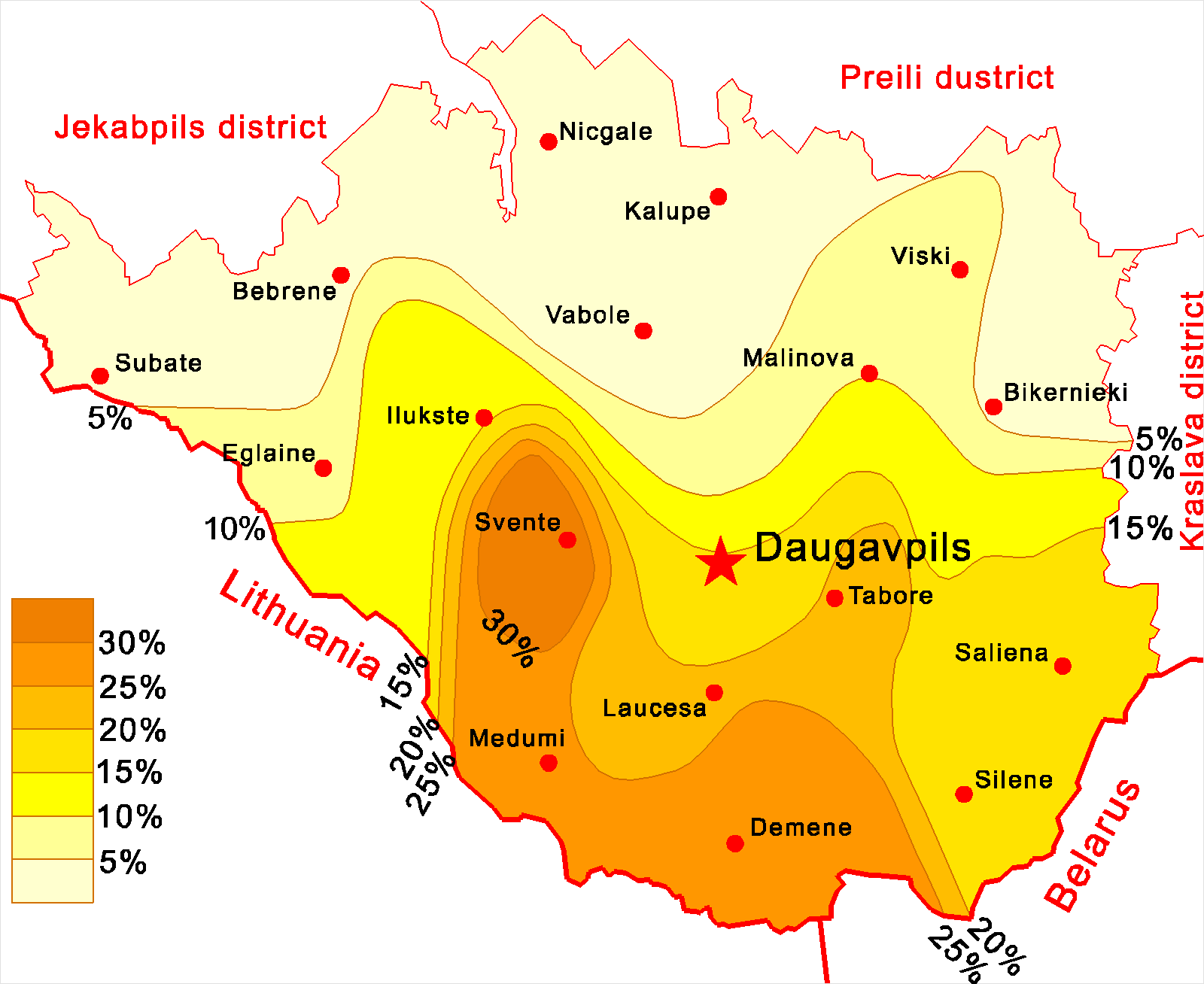 Ethnic Poles percentage in the Daugavpils district, Latvia. Statistic data (2006) from the Daugavpils district official site